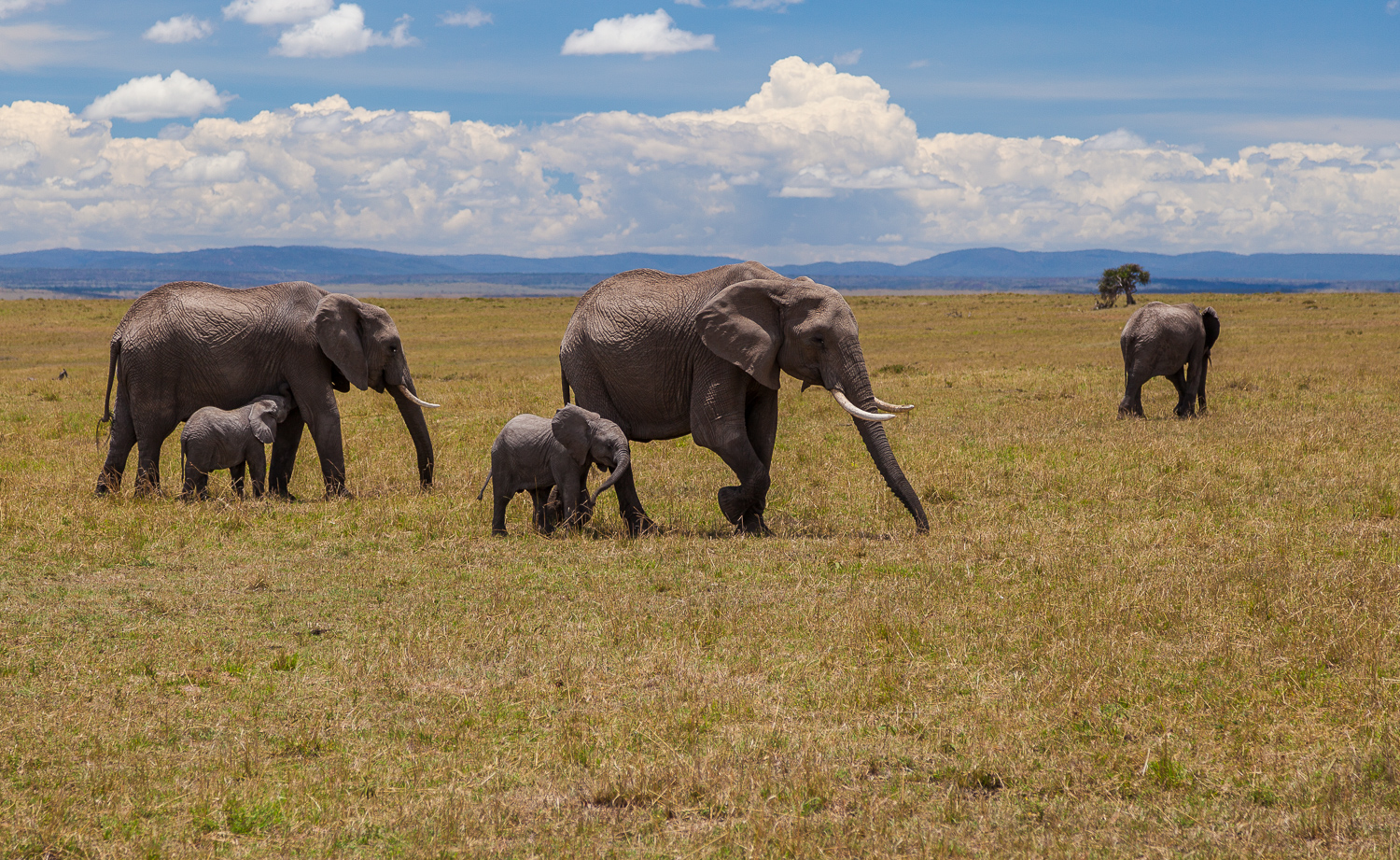 One species of African elephant, the bush elephant, is the largest living terrestrial animal. Their large ears enable heat loss. Males stand 3.2–4.0 m tall at the shoulder and weigh 4–6000 kg.